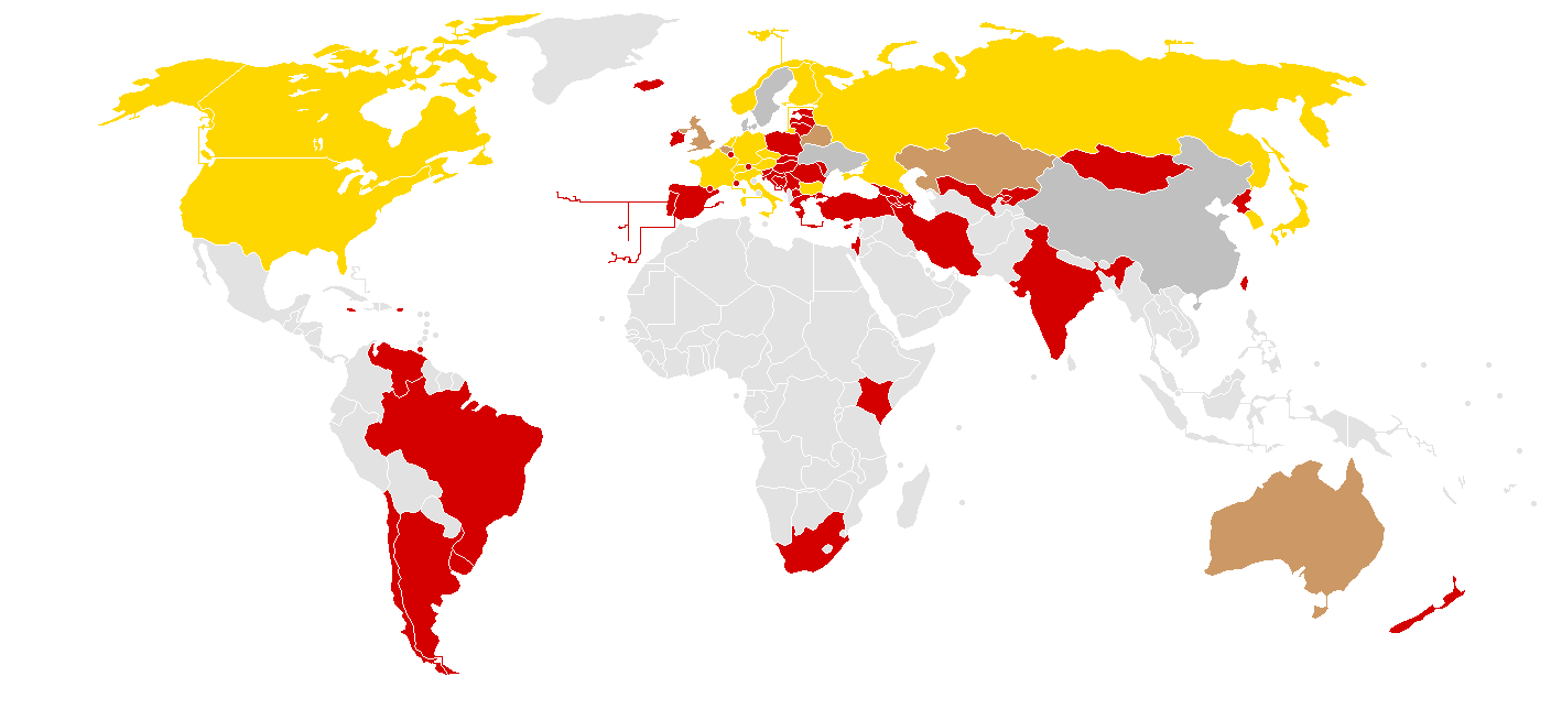 Countries with at least one gold medal Countries with at least one silver medal Countries with at least one bronze medal Countries that didn't get any medal Countries that did not participate